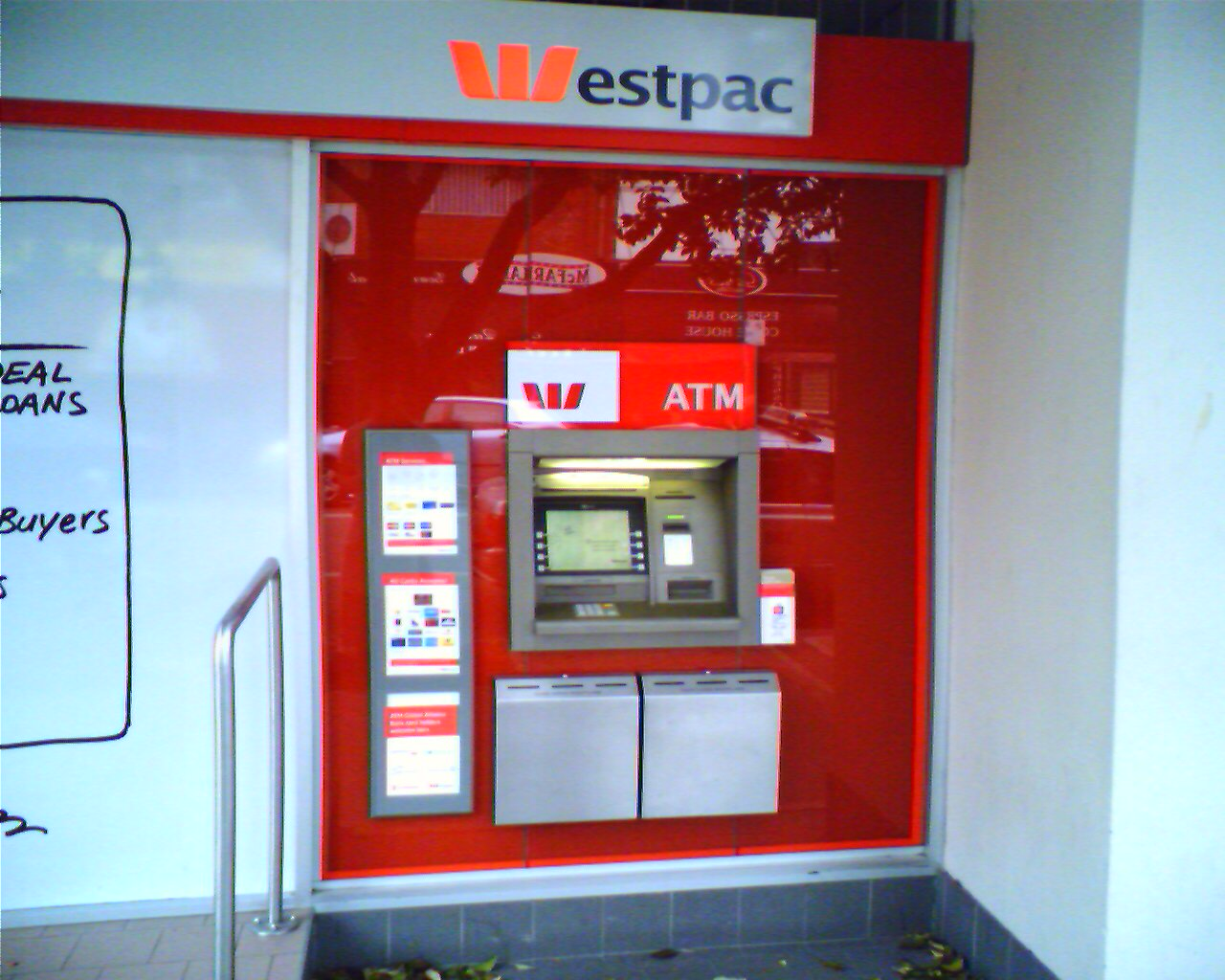 Westpac ATM in Wahroonga, NSW, Australia